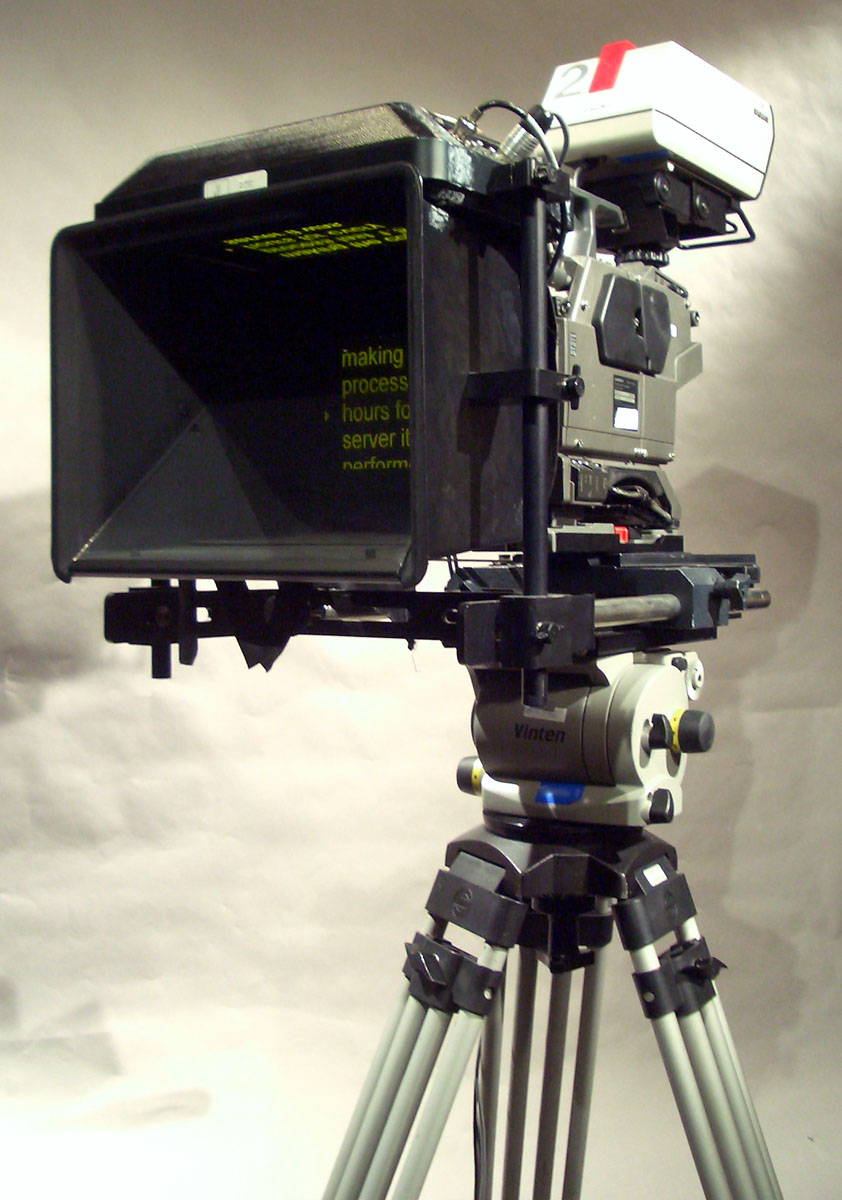 A teleprompter displaying text mounted on a camera. The used display for the teleprompter is a flat screen mounted on top of the unit. Text courtesy of Wikinews.